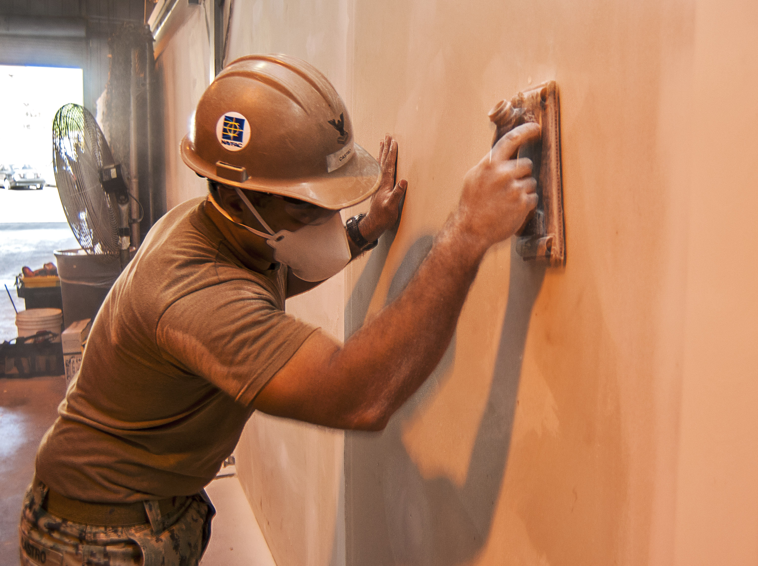 U.S. Navy Builder 2nd Class Raynoldo Castro, assigned to Naval Facilities Engineering Command, sands a wall at Mobile Diving and Salvage Unit One Feb. 7, 2013, at Joint Base Pearl Harbor-Hickam, Hawaii.